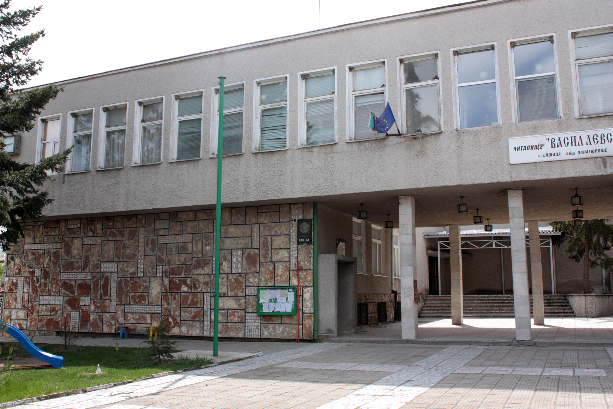 Elshitsa municipality office